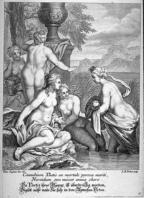 Thetis, tired of her husband, returns to her nymphs 17th - 18th century engraving-etching Johann Balthasar Probst Fine Arts Museum of San Francisco.